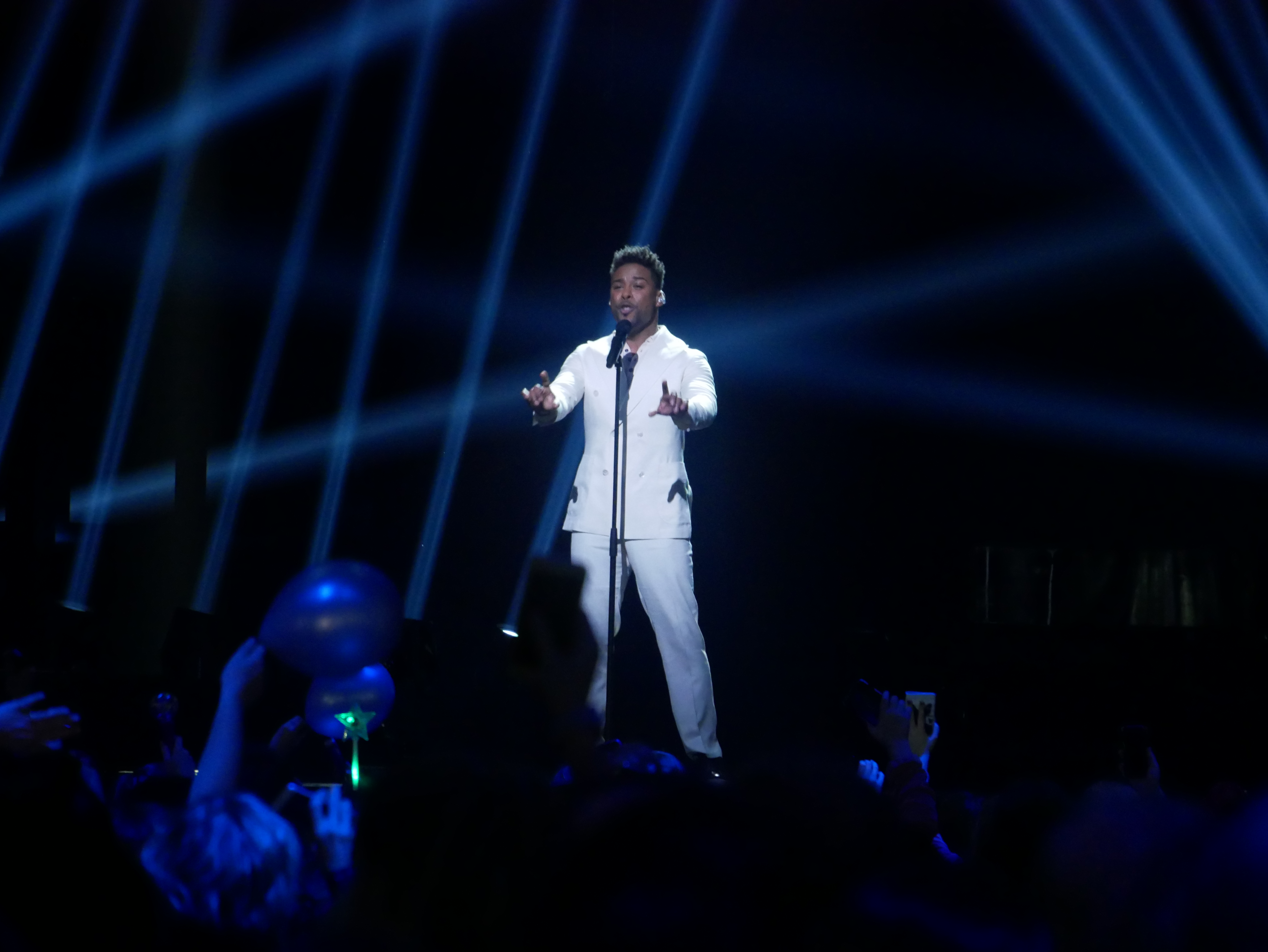 Swedish Melodifestivalen 2018, part 1 in Karlstad This file was made possible through Melodifestivalen 2018, a community driven project funded by Wikimedia Sverige. John Lundvik, deltävling 1